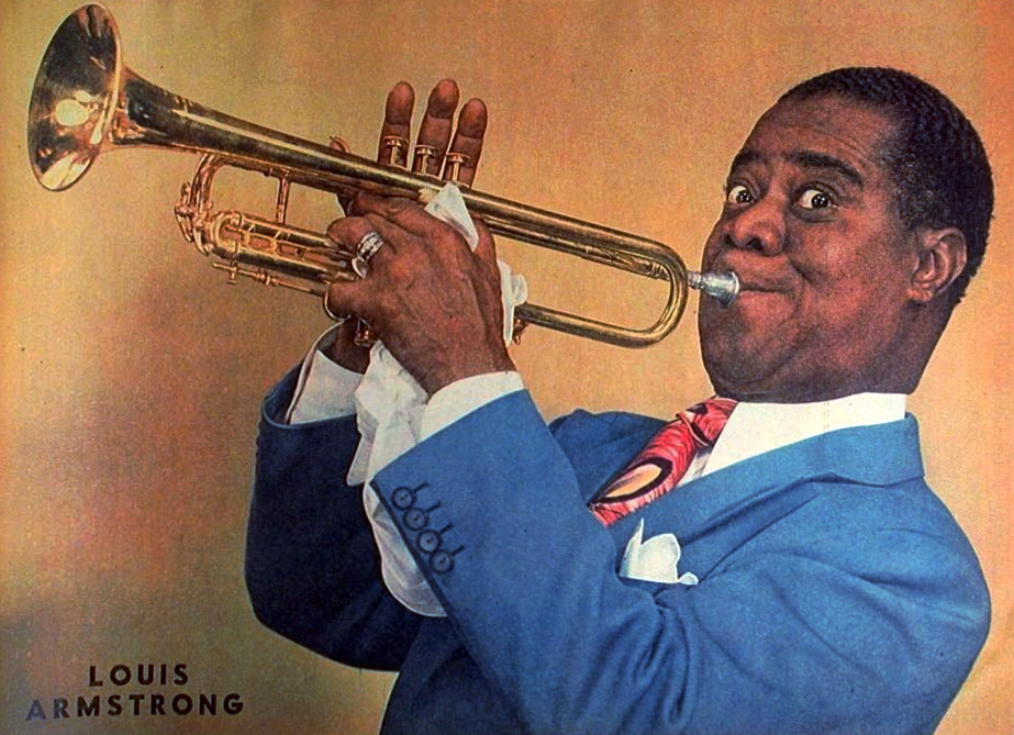 Photo of Louis Armstrong from the New York Sunday News. Date is at upper left corner of uncropped photo.